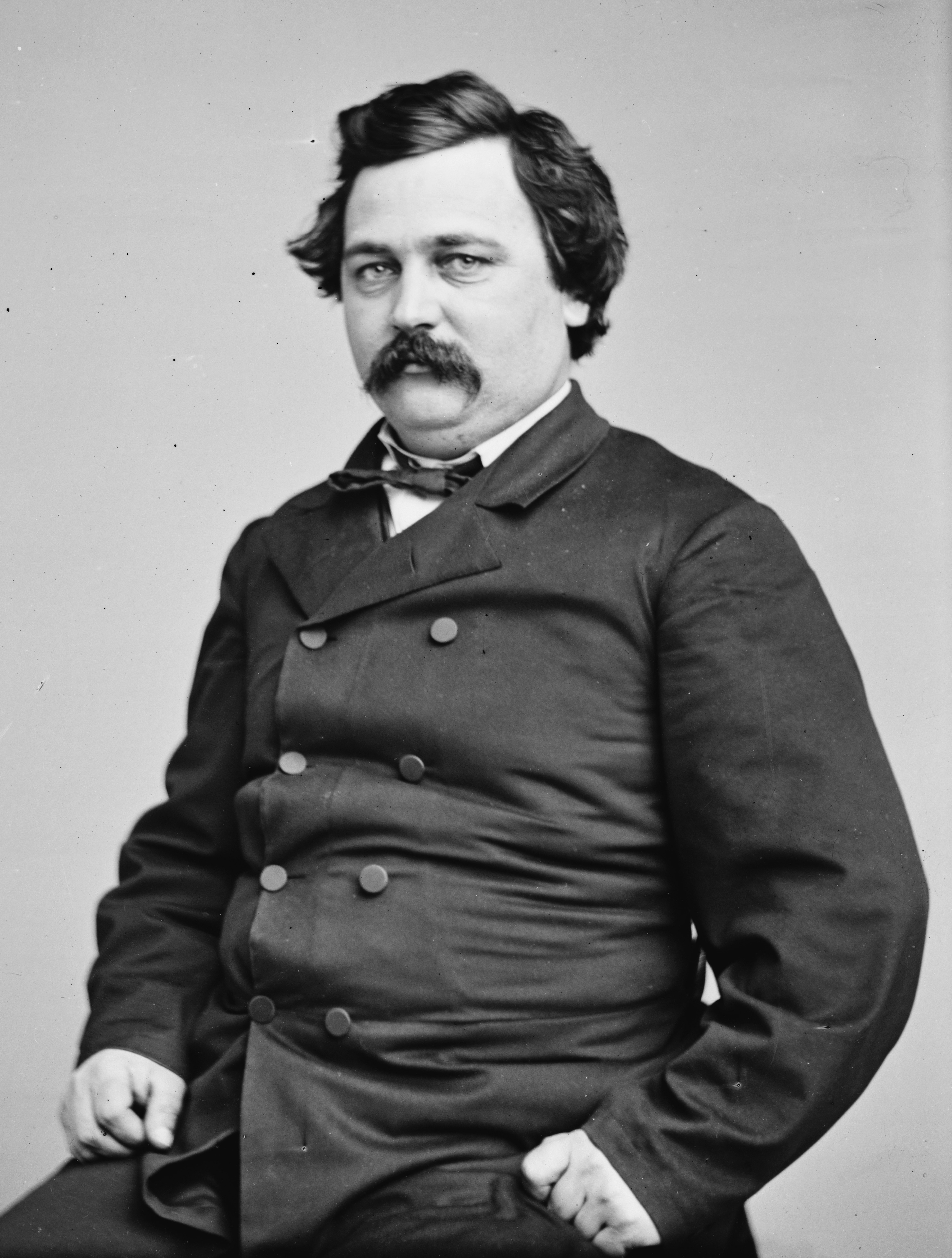 William S. Hillyer photo, taken from the Library of Congress